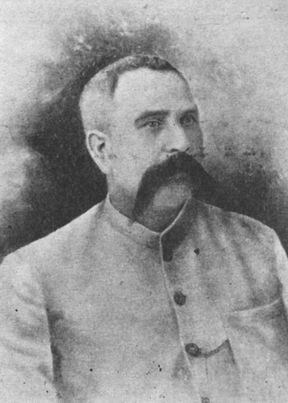 John Bowles Dayly (?1844-?1916), Anglican curate turned Budddhist educator who arrived in Ceylon in 1891, becoming founder-principal of Mahinda College, Colombo a position he held until 1894.